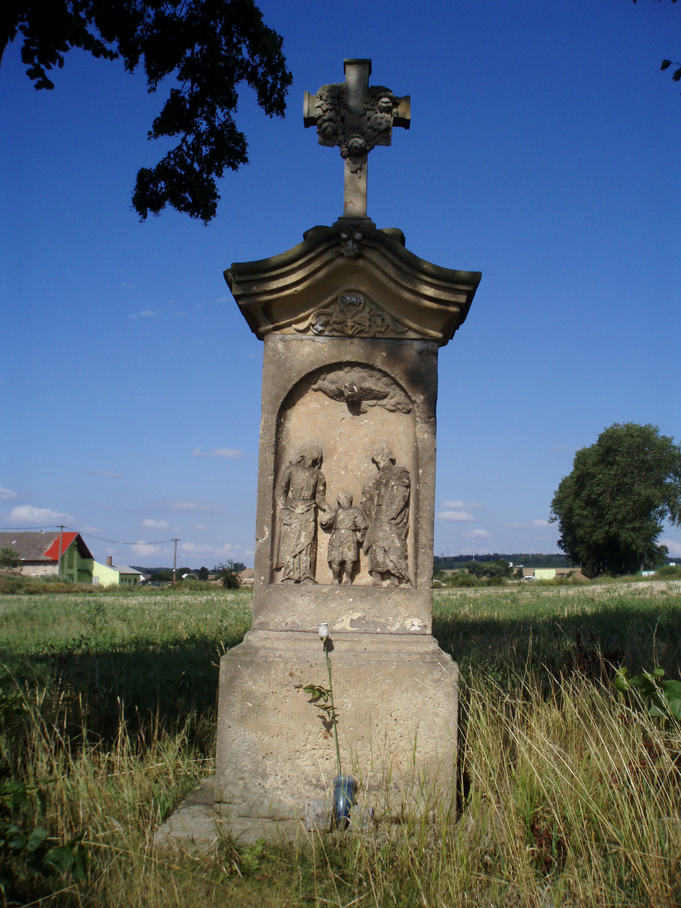 Stone Cross in Chaloupky (Hradec Králové, Czechia)